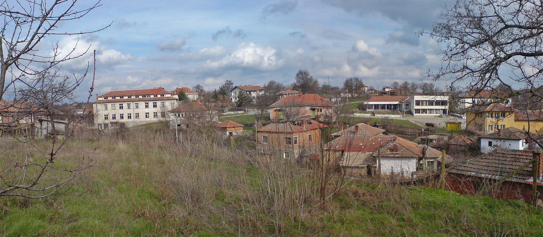 Picture of Razdel